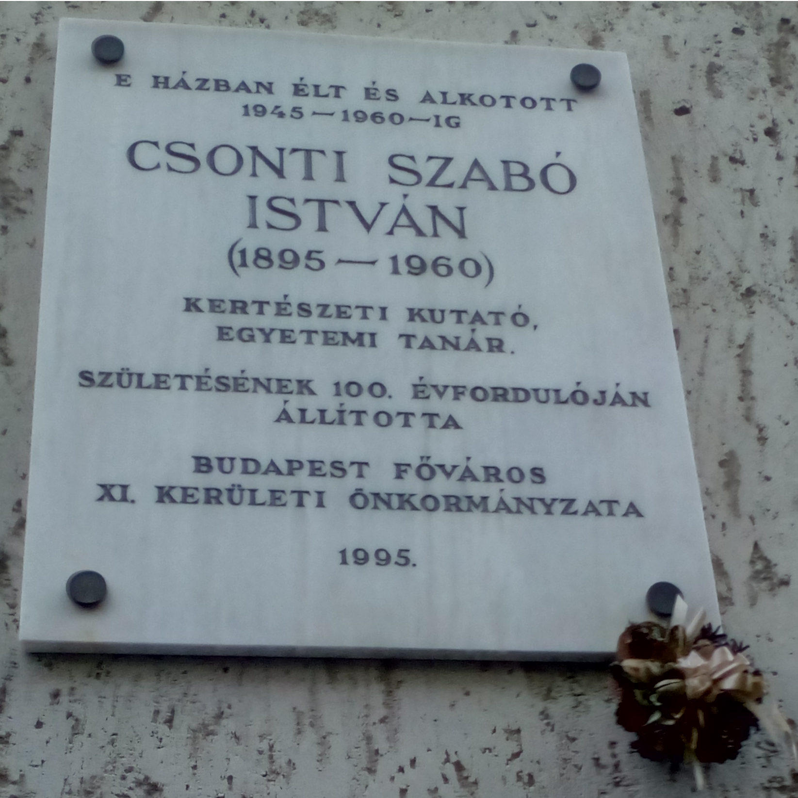 István Csonti Szabó commemorative plaque in Budapest District XI, Lágymányosi Street No 17/b.